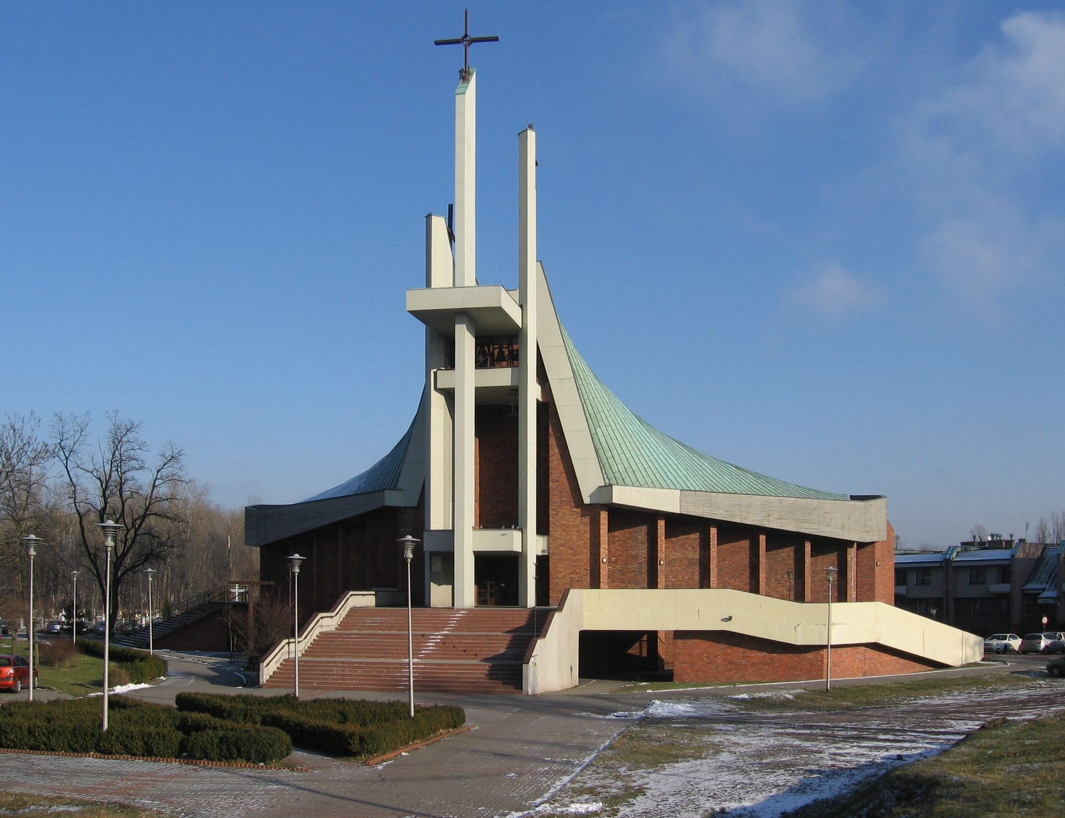 The Roman Catholic church of the Most Sacred Heart of Jesus in Świętochłowice-Piaśniki, Poland.